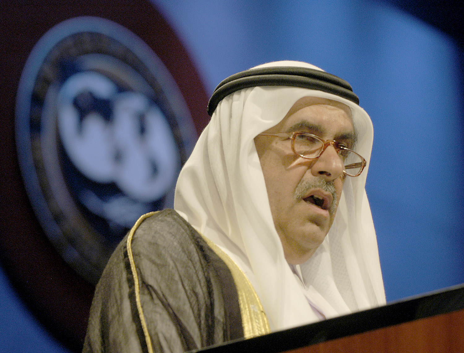 Photo of Sheikh Hamdan bin Rashid Al Maktoum that has been taken during the 2003 Annual Meetings of the Boards of Governors of the World Bank Group International Monetary Fund.